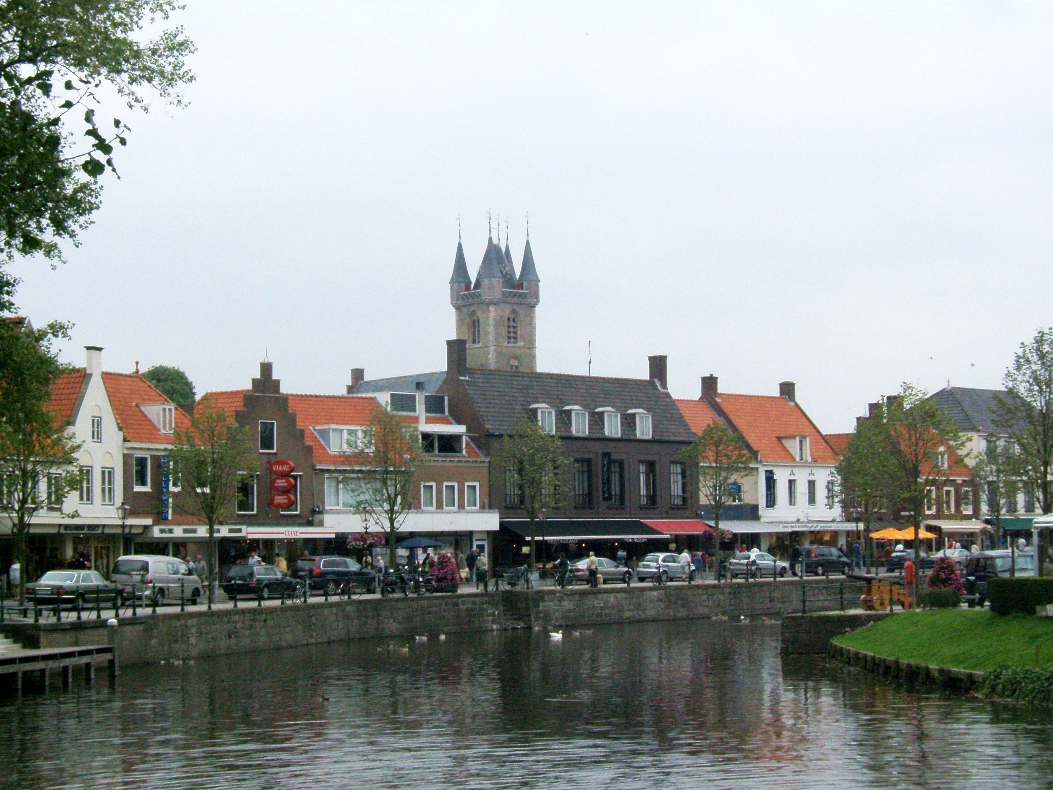 View from the channel to the city and Belfort of Sluis.